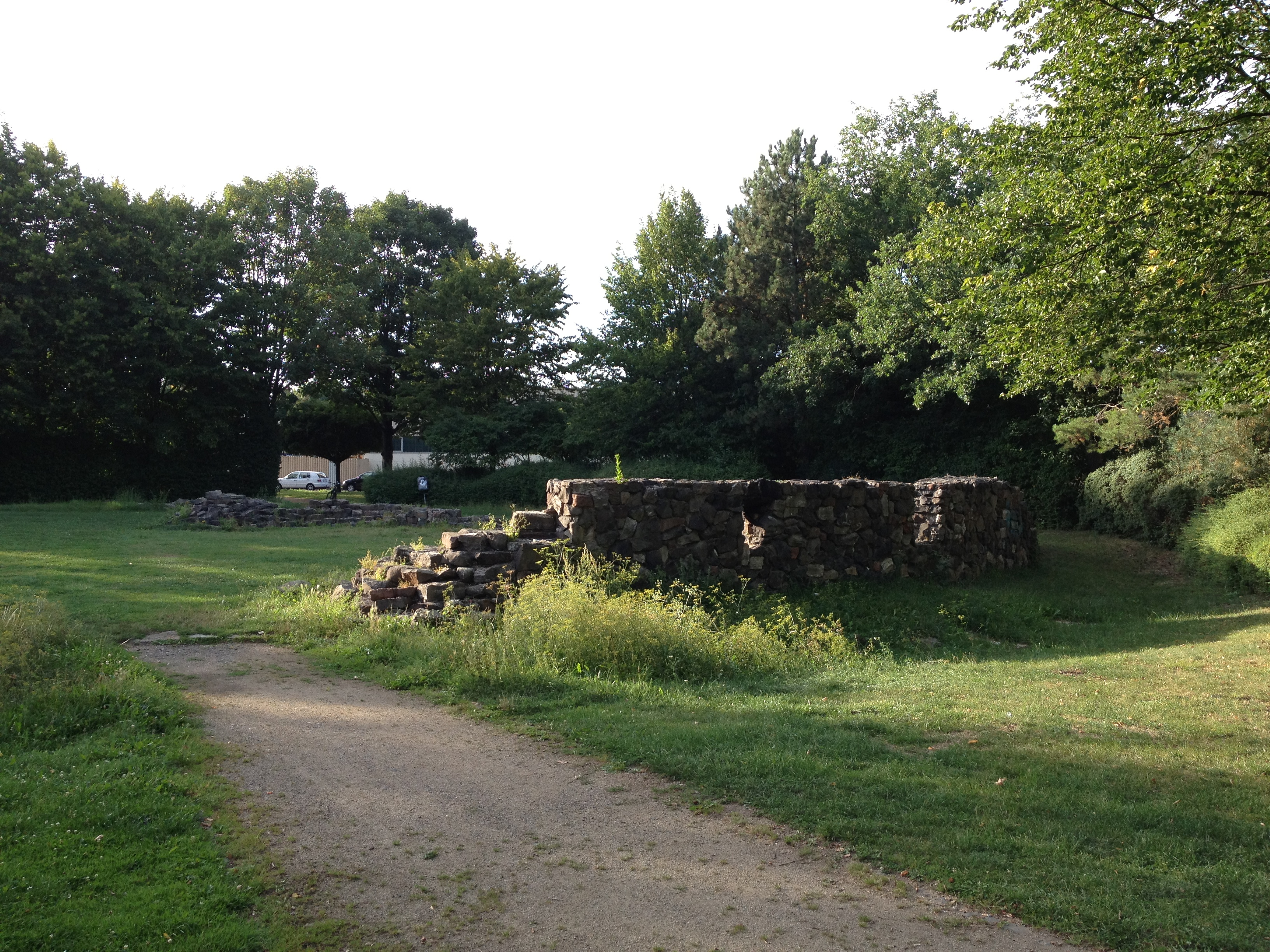 Caste "Burg im Hayn" in Obertshausen, County Offenbach, Hesse, Germany